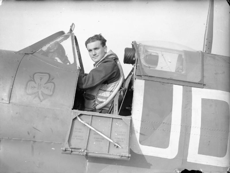 Commonwealth Air Aces of the Second World War Flight Lieutenant Brendan 'Paddy' Finucane DFC, an Irishman who flew with the Royal Air Force, seated in the cockpit of his Supermarine Spitfire at RAF Kenley while serving with No.452 Squadron RAAF.